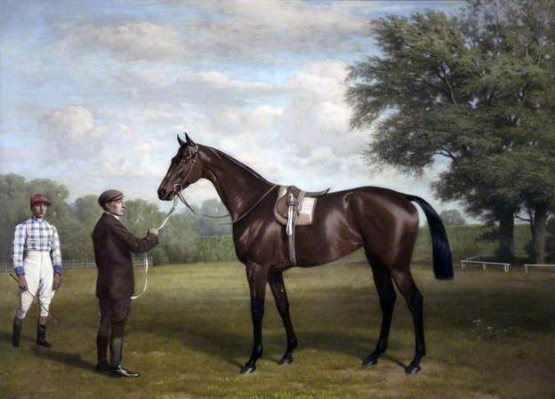 Painting of British racehorse Cherry Lass by Emil Adam (1843-1924). Circa 1905